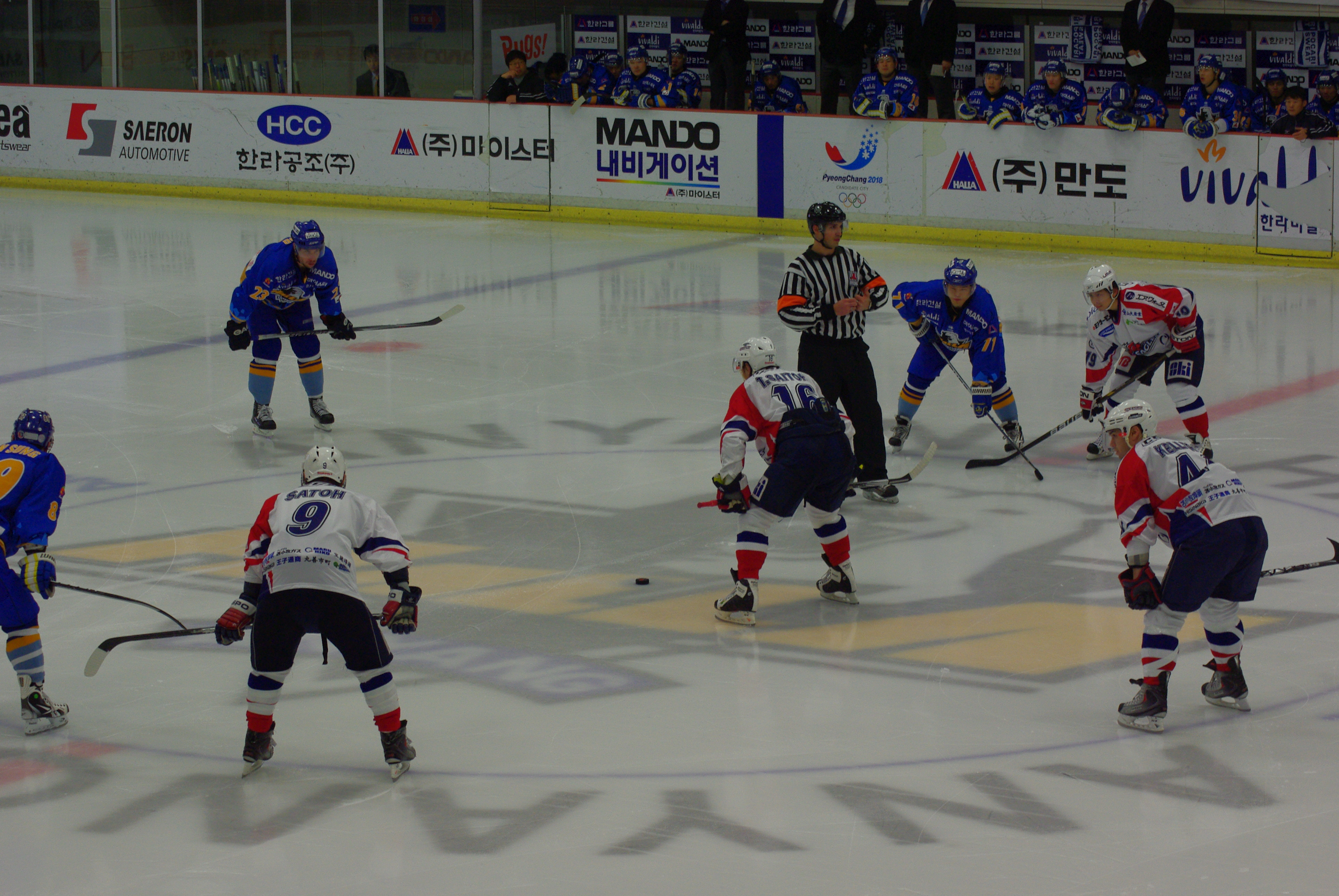 Anyang Halla face the Oji eagles